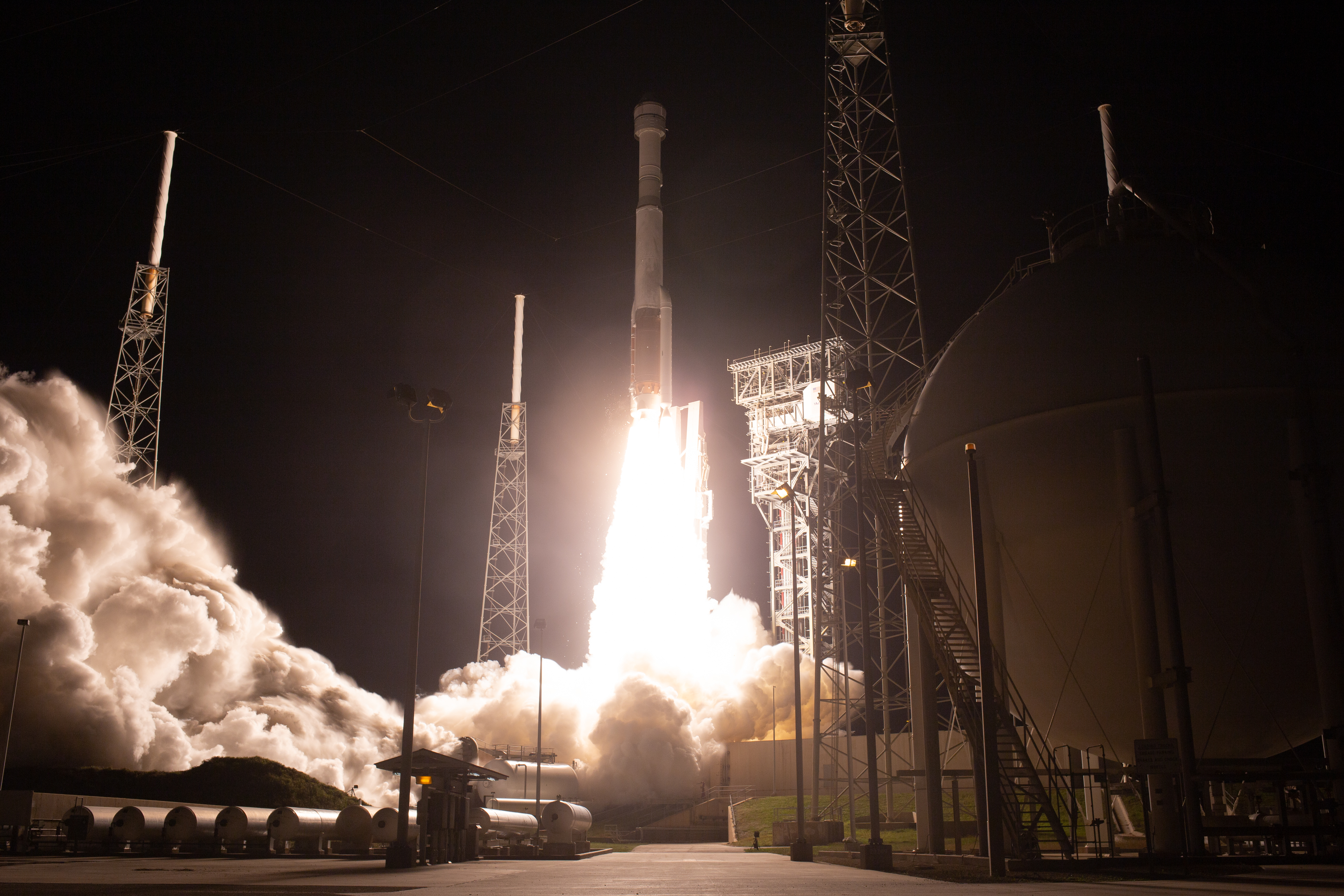 A United Launch Alliance Atlas V rocket with Boeing’s CST-100 Starliner spacecraft onboard launches from Space Launch Complex 41, Friday, Dec. 20, 2019, at Cape Canaveral Air Force Station in Florida. After a successful launch at 6:36 a.m. EST, Boeing’s CST-100 Starliner is in an unplanned, but stable orbit. The team is assessing what test objectives can be achieved before the spacecraft’s return to land in White Sands, New Mexico.